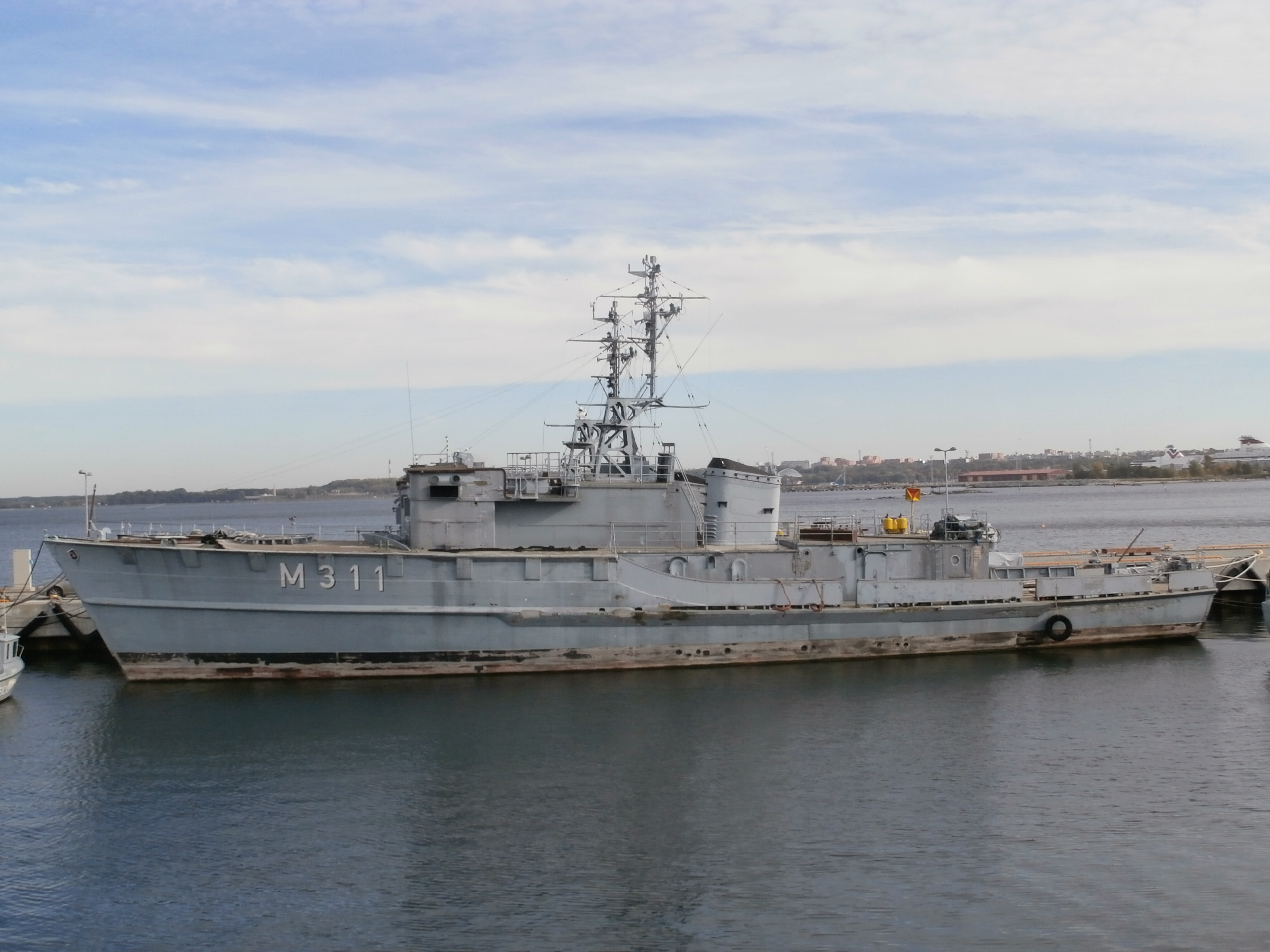 M311 Wambola alongside M312 Sulev at quay B in Lennusadam Tallinn 5 October 2013